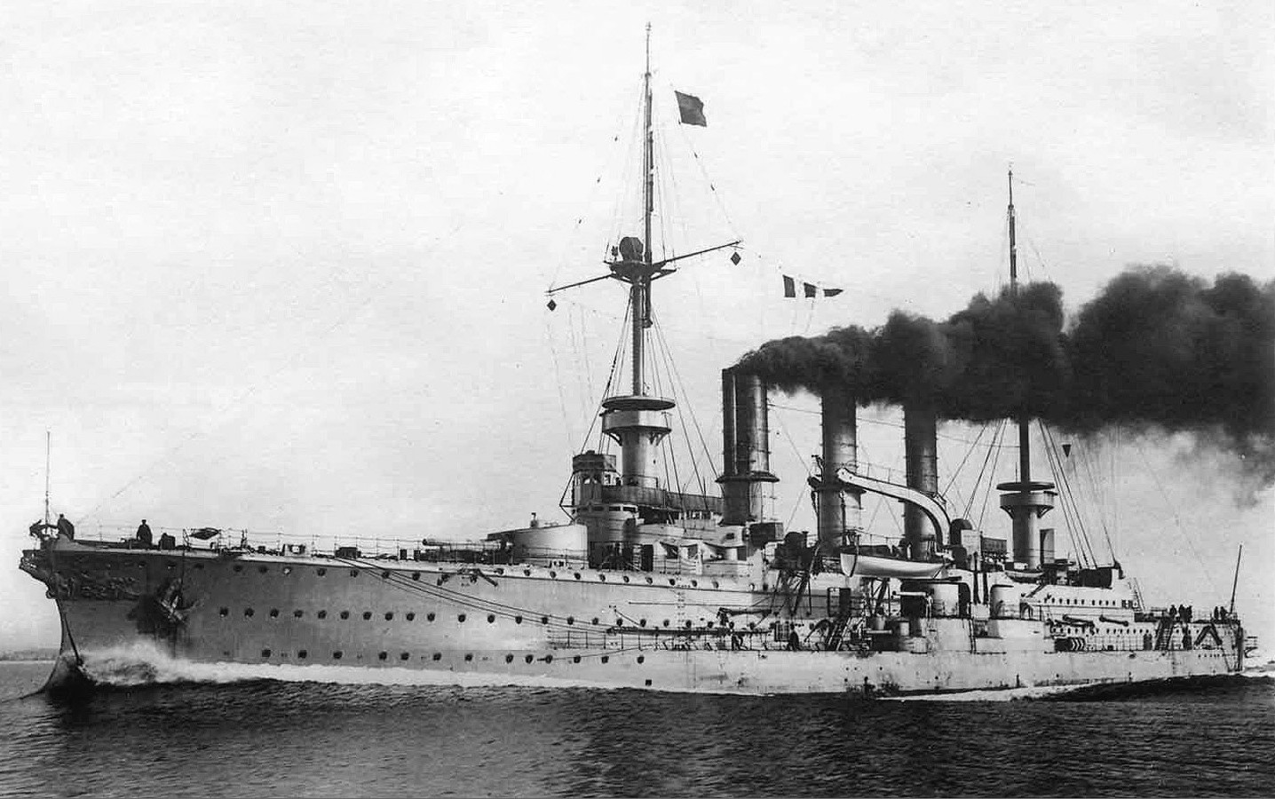 The German Imperial Navy cruiser SMS Prinz Adalbert before 1914.